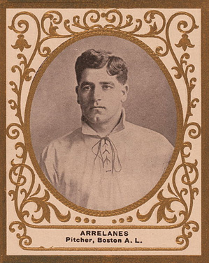 Depicted person: Frank Arellanes – Major League Baseball player